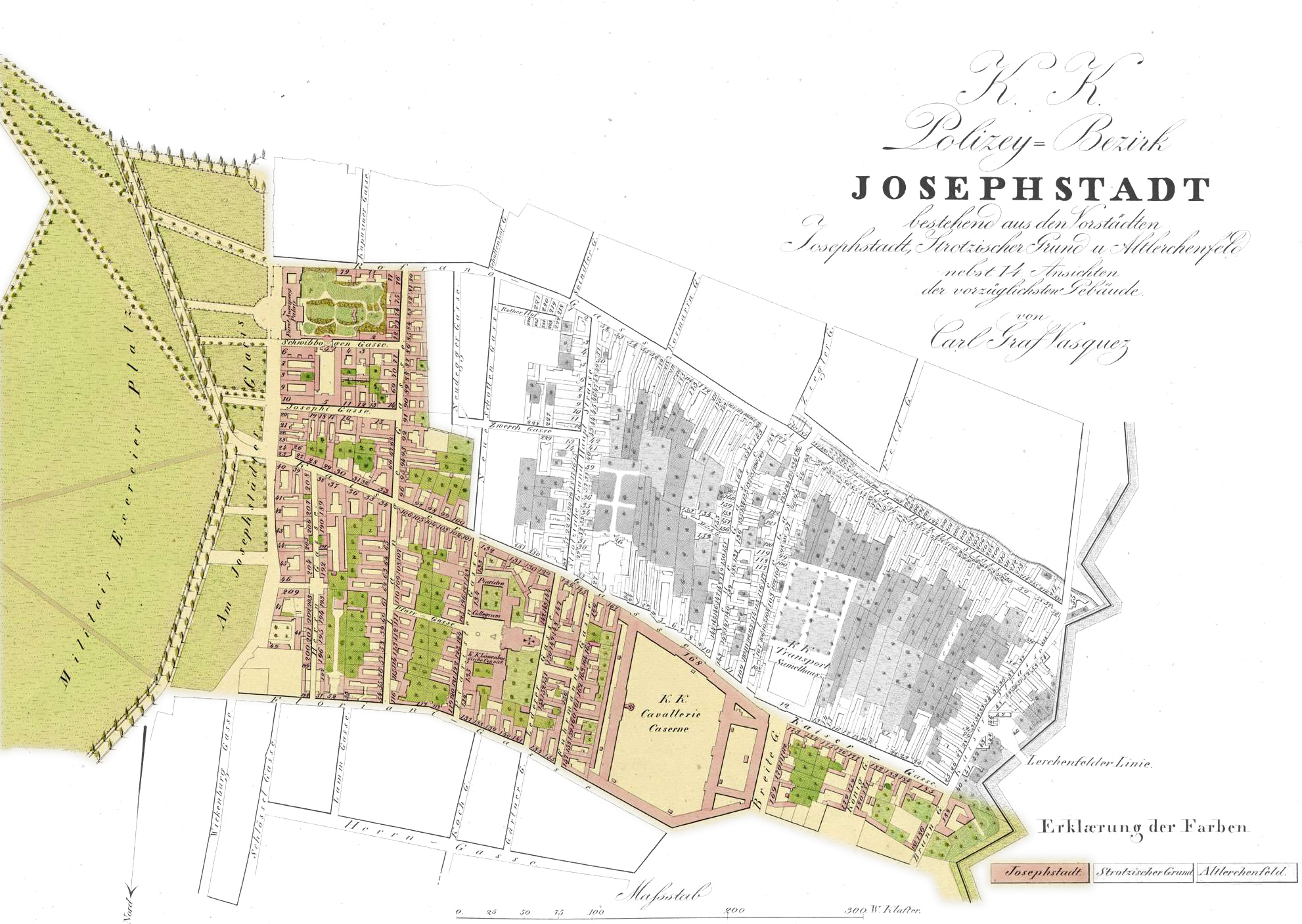 Map of Vienna / Josephstadt, approx. 1830